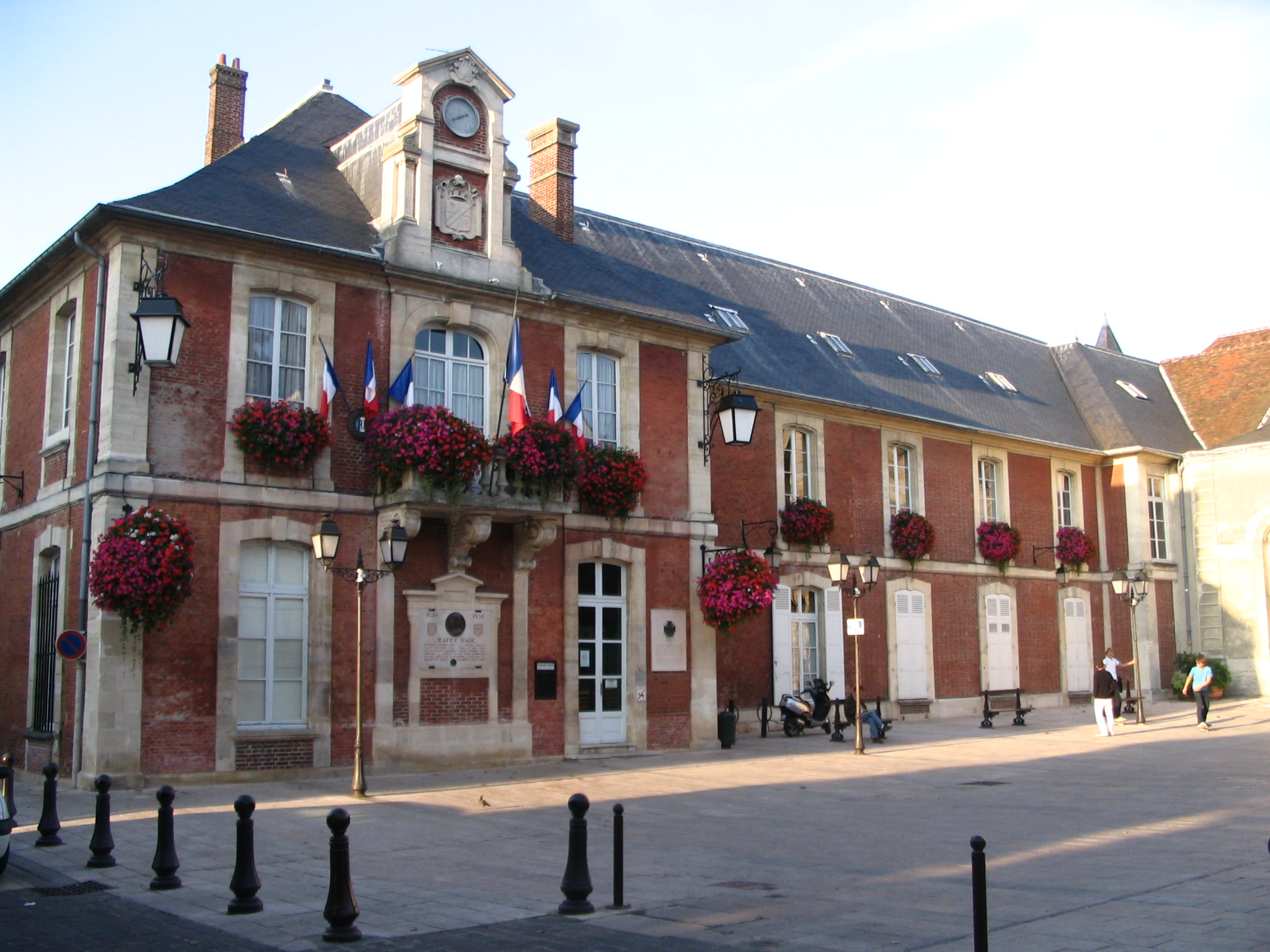 The town hall of Lagny-sur-Marne, Seine-et-Marne, France.